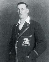 William Howard Vincent "Hopper" Levett was born 25 January 1908 at Goudhurst, Kent. He was the son of a Kentish landowner who raised hops for the beer industry. A graduate of Brighton College, Levett was a right-hand bat and wicketkeeper. He died at Hastings, Sussex, 1 December 1995 at age 87. He was considered one of the striking personalities of Kent cricket.